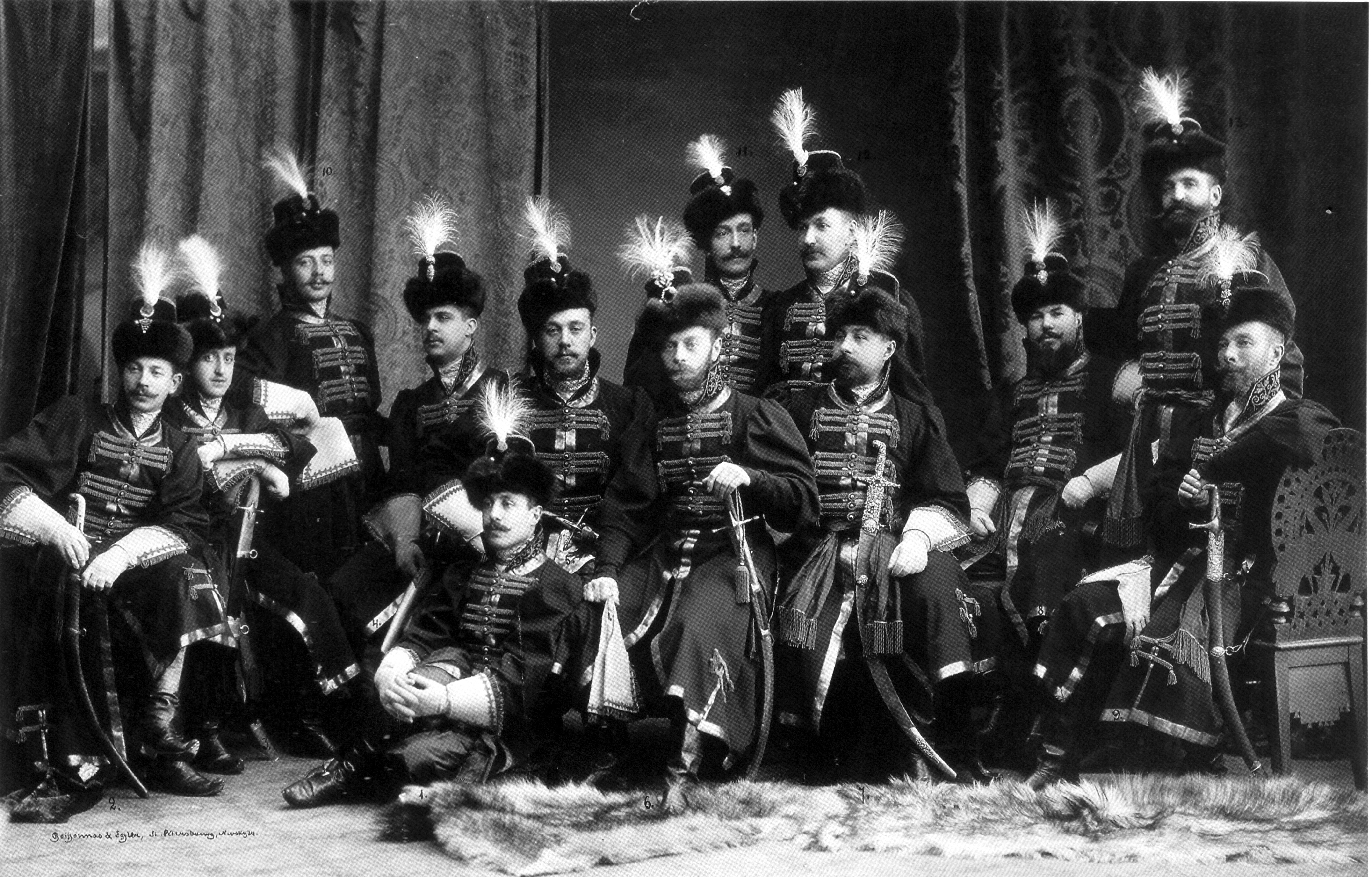 Officers of Preobrazhenskiy (as Tsar Alexey Mikhailovich's zhiltsy)